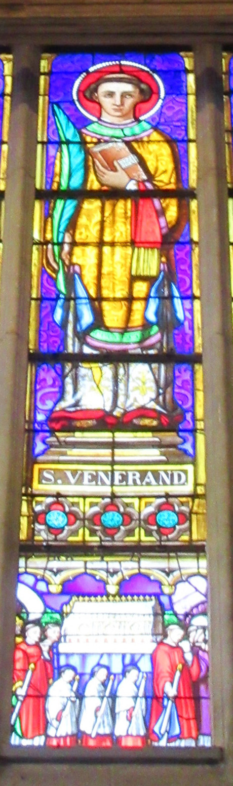 Image of Saint Venerand in Saint Venerand church of Laval